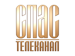 Logo Russian orthodox television channel SPAS